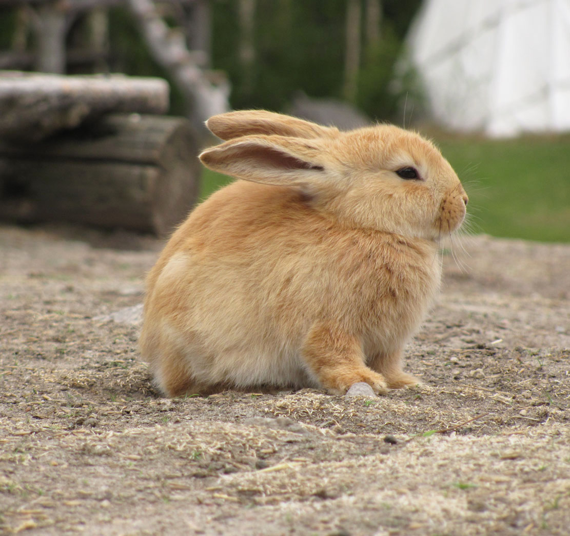 A reddish bunny in Ysitien lemmikki Zoo.